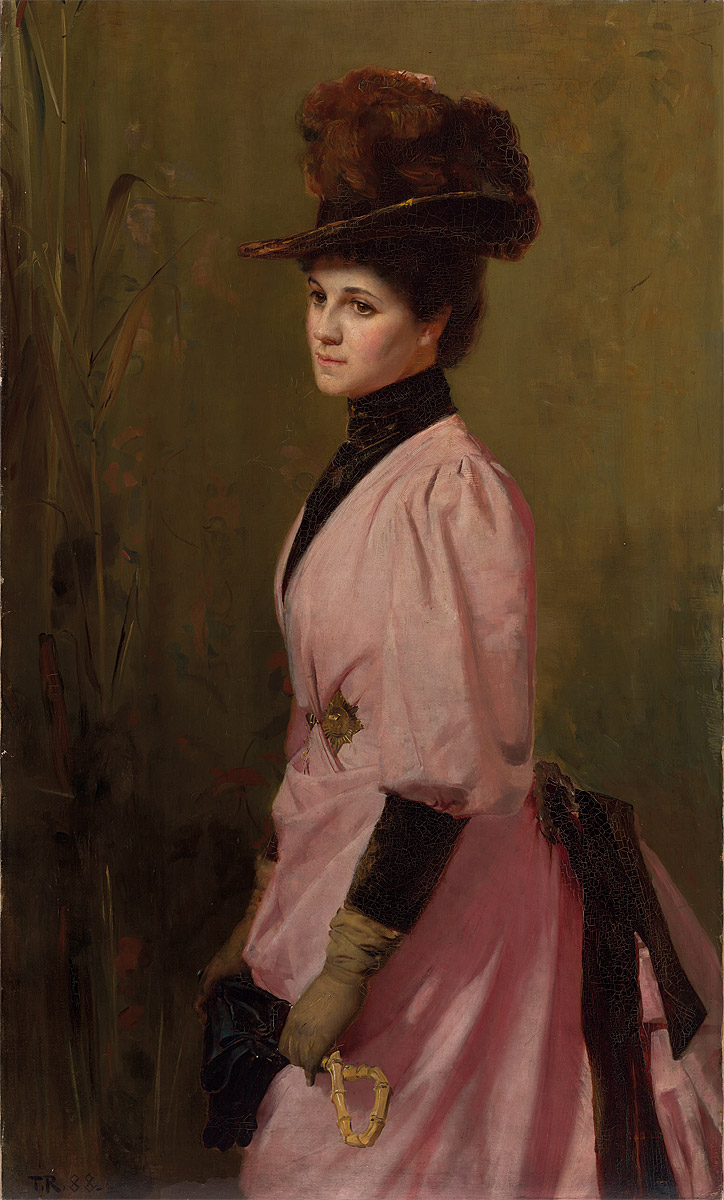 An Australian Native [Portrait of a lady] 1888 Purchased through the Joseph Brown Fund 1979